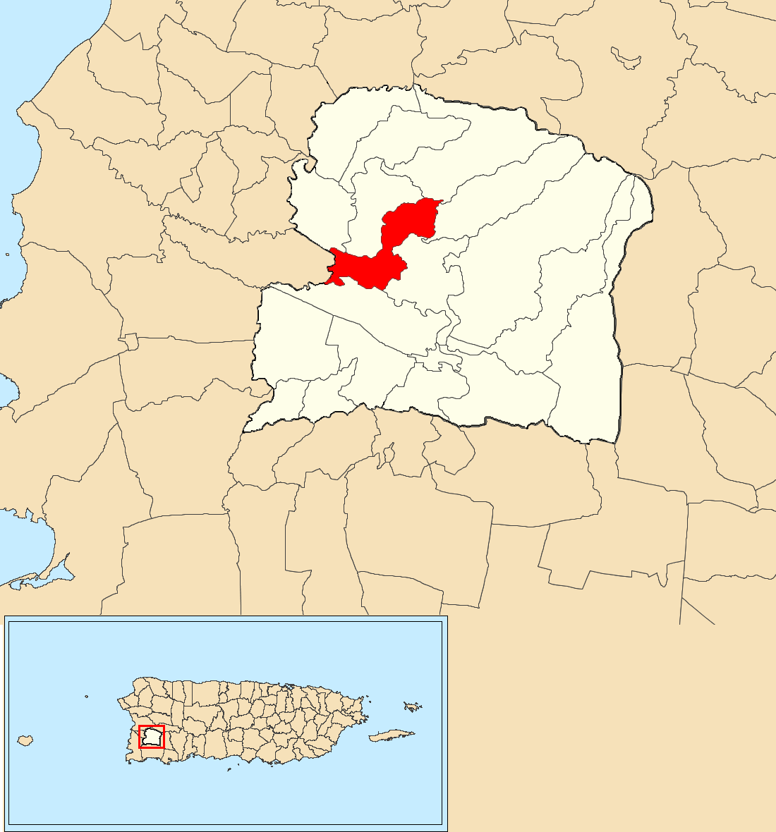 Hoconuco Bajo, San Germán, Puerto Rico locator map